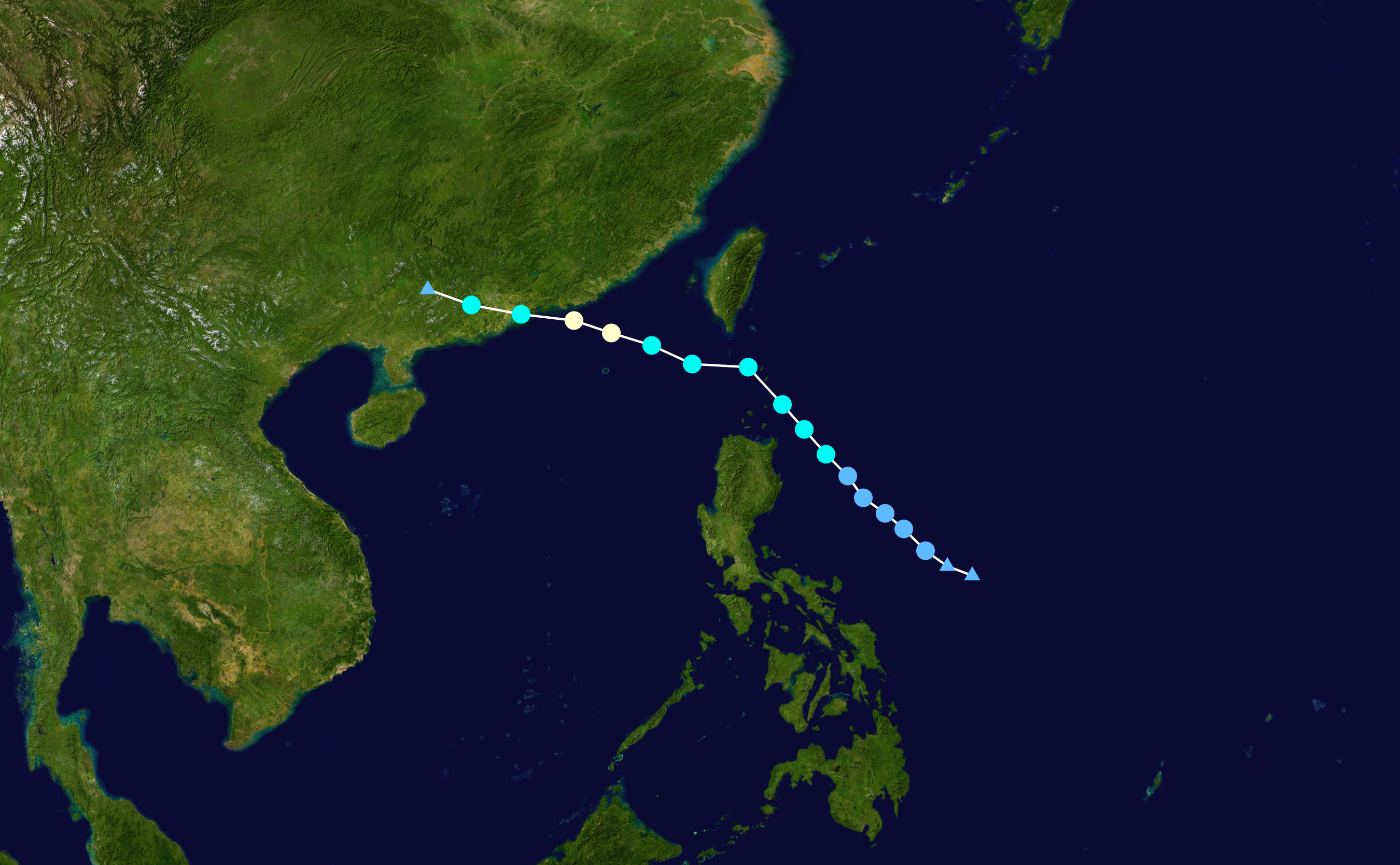 Track map of Typhoon Molave of the 2009 Pacific typhoon season. The points show the location of the storm at 6-hour intervals. The colour represents the storm's maximum sustained wind speeds as classified in the Saffir–Simpson scale (see below), and the shape of the data points represent the nature of the storm, according to the legend below. Saffir–Simpson scale Tropical depression≤38 mph≤62 km/h Category 3111–129 mph178–208 km/h Tropical storm39–73 mph63–118 km/h Category 4130–156 mph209–251 km/h Category 174–95 mph119–153 km/h Category 5≥157 mph≥252 km/h Category 296–110 mph154–177 km/h Unknown Storm type Tropical cyclone Subtropical cyclone Extratropical cyclone / Remnant low / Tropical disturbance / Monsoon depression